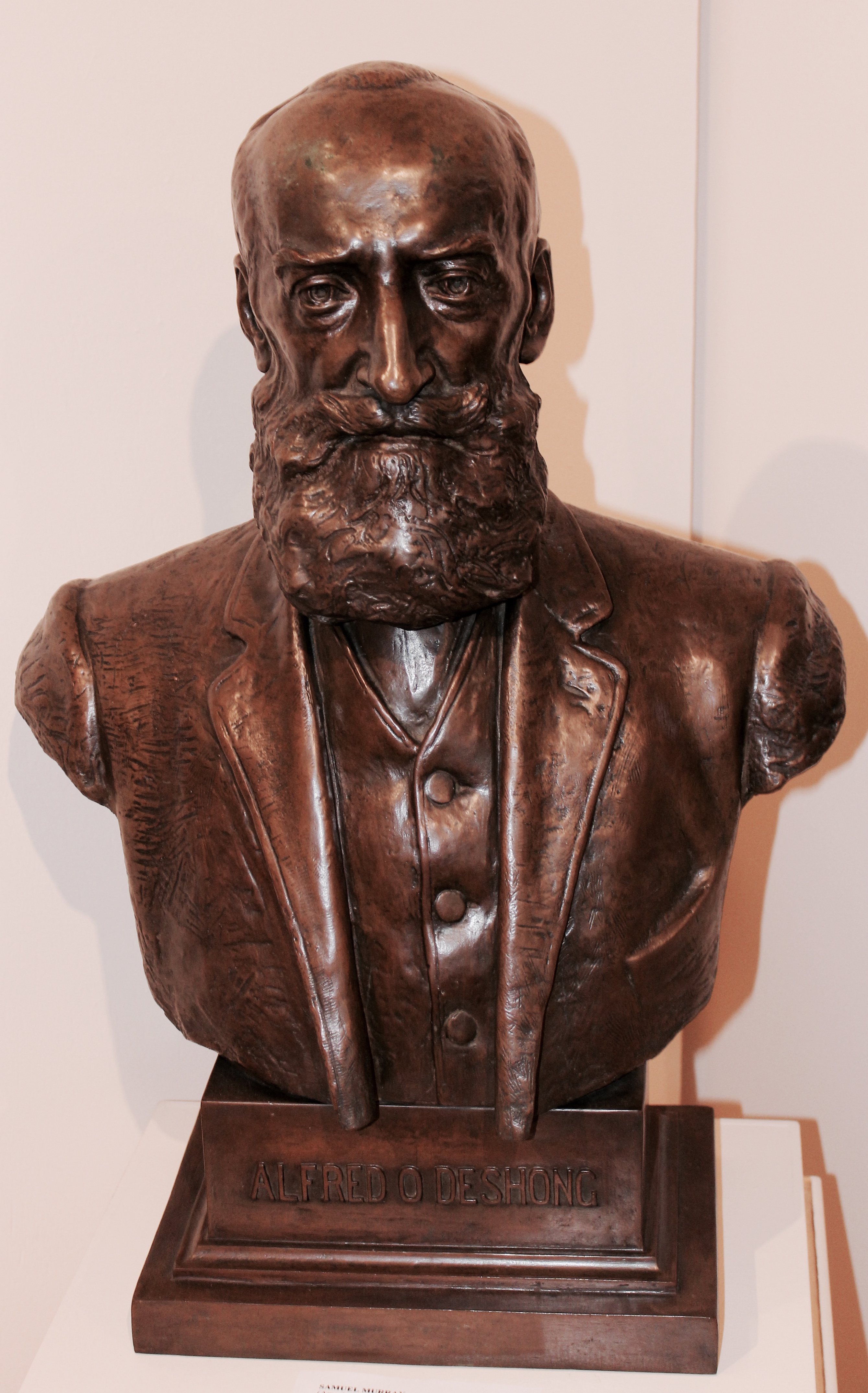 Bust of Alfred O. Deshong (1916) by Samuel Murray, Alfred O. Deshong Collection, Widener University Art Museum, Chester, Pennsylvania.[1]